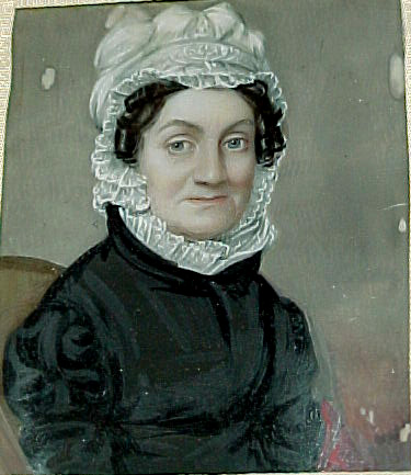 Sarah Pierce (June 26, 1767 – January 19, 1852), watercolor on Ivory, attributed to George Catlin (1796-1872); 3 1/2" length x 2 7/8" width